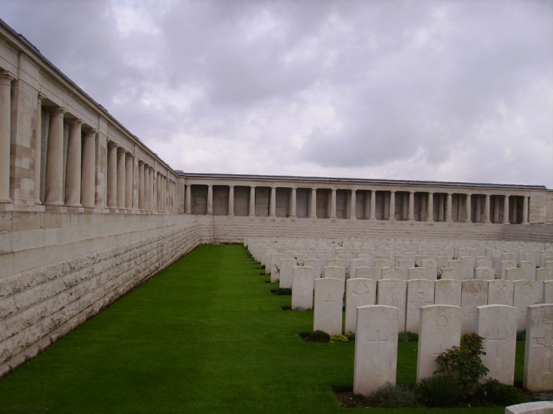 The Pozieres Memorial to the Missing